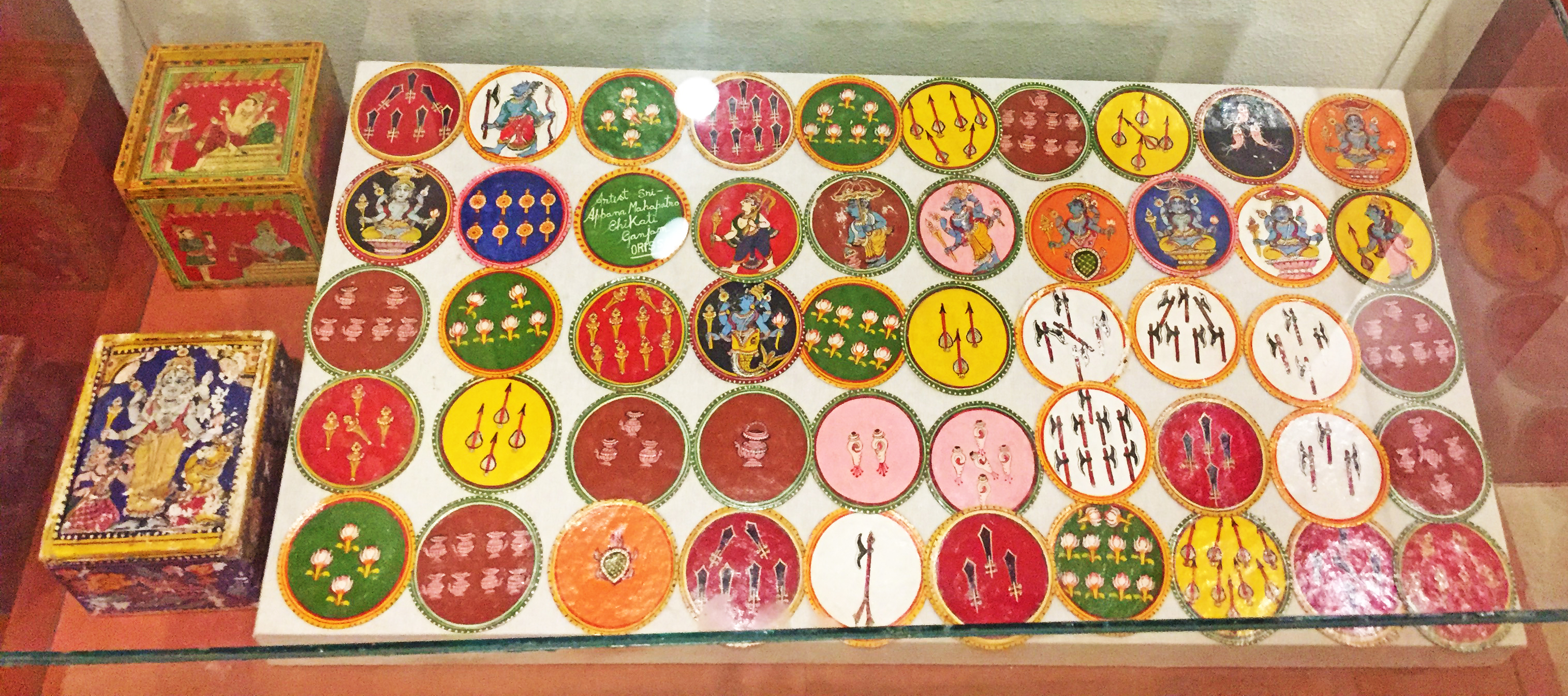 Ganjapa cards at Odisha Crafts Museum, Bhubaneswar, Odisha, India. ଓଡ଼ିଆ: ଭାରତର ଓଡ଼ିଶାସ୍ଥିତ ଭୁବନେଶ୍ୱରରେ ଥିବା କଳା ଭୂମିରେ (ଓଡ଼ିଶା ହସ୍ତଶିଳ୍ପ ସଂଗ୍ରହାଳୟ) ଥିବା ଏକ ଗଞ୍ଜପା ପଟି ।